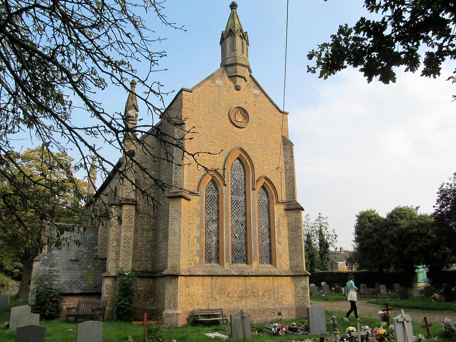 Long Lawford-Saint John's Church (Closed) Empty since 1995.